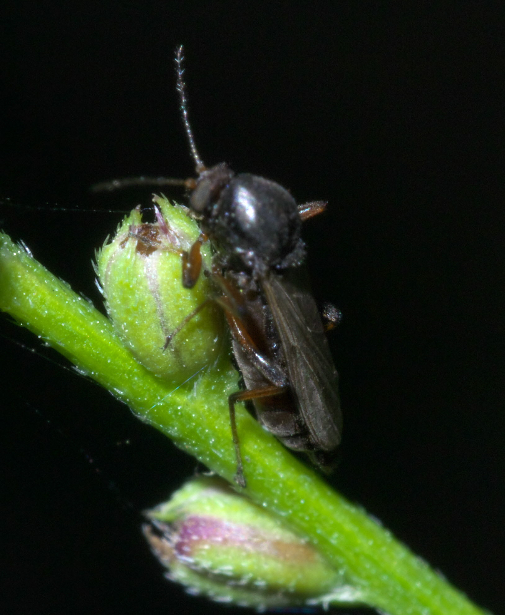 Palpomyia, Family: Biting Midges, female, Size: about 4 mm, ID Confidence: 98